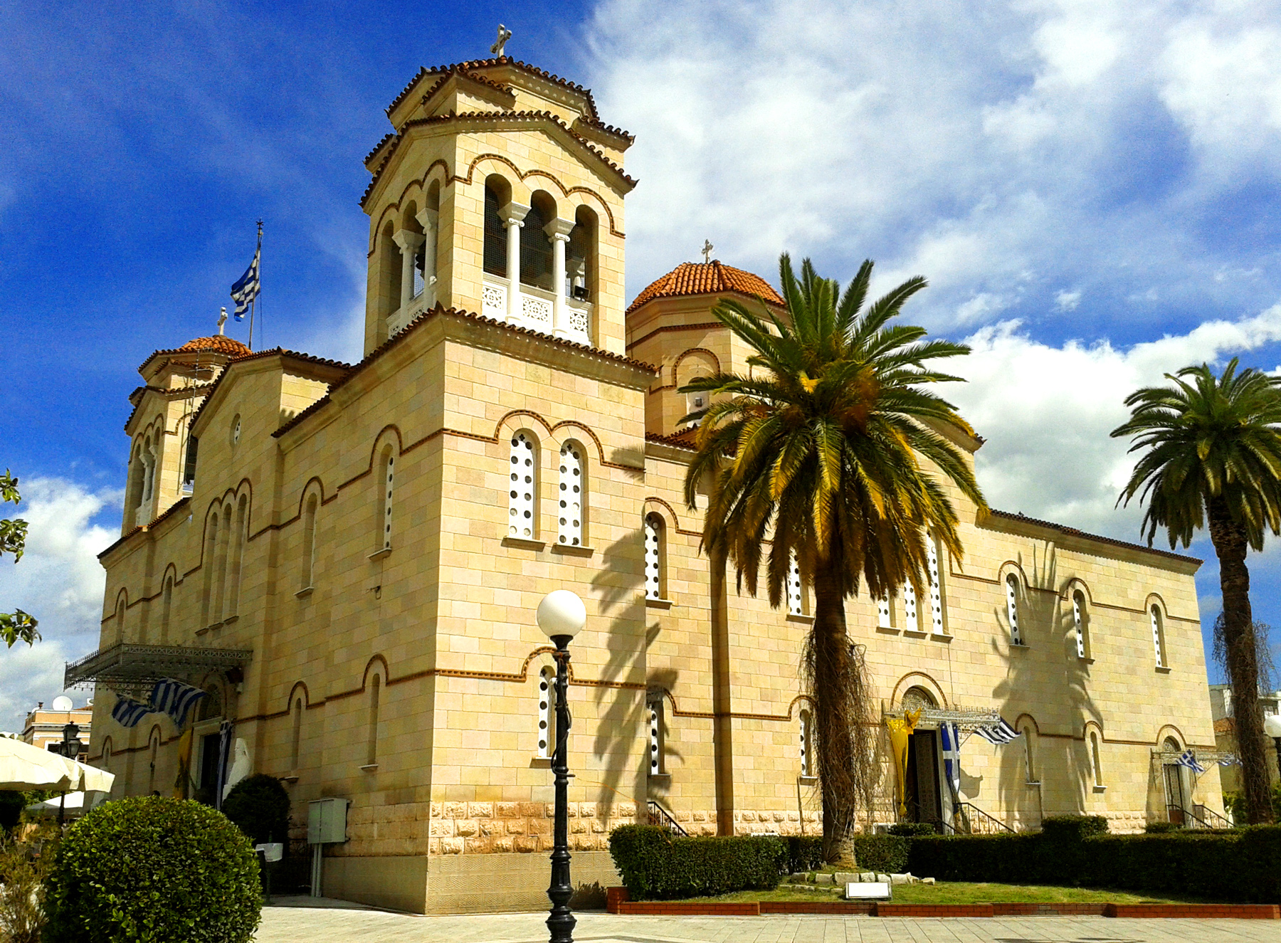 Cathedral of Argos, Greece